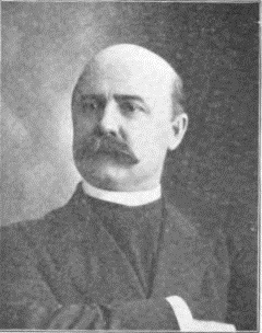 Rev. Jacob Brittingham, 1882 priest at Trinity Episcopal Church, Parkersburg, West Virginia; 1883 rector of Christ Church, Clarksburg; 1889 rector of St. Luke's, Wheeling.